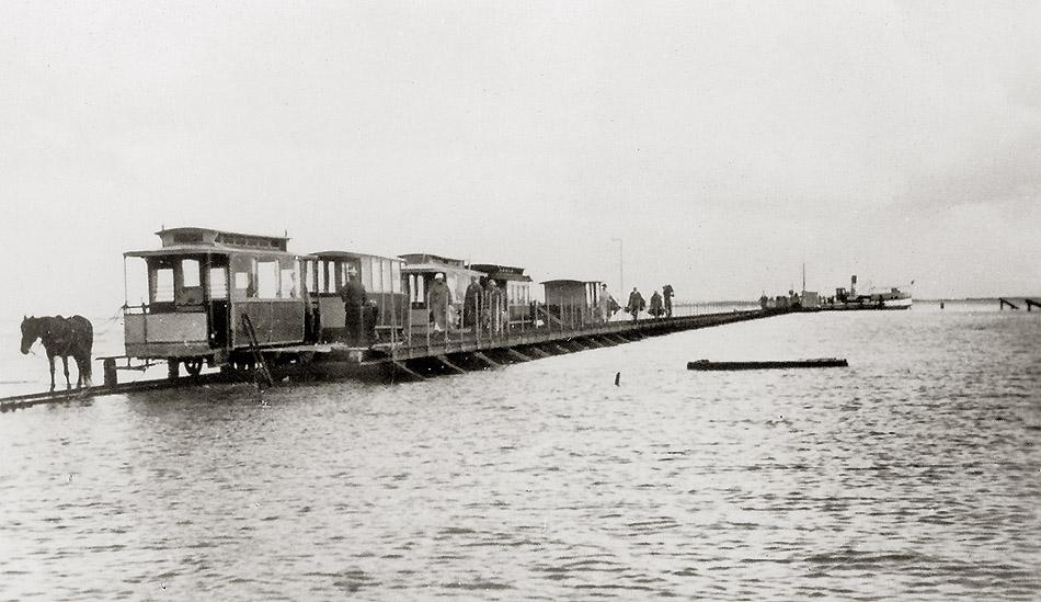 Zweiter Anleger Spiekeroog